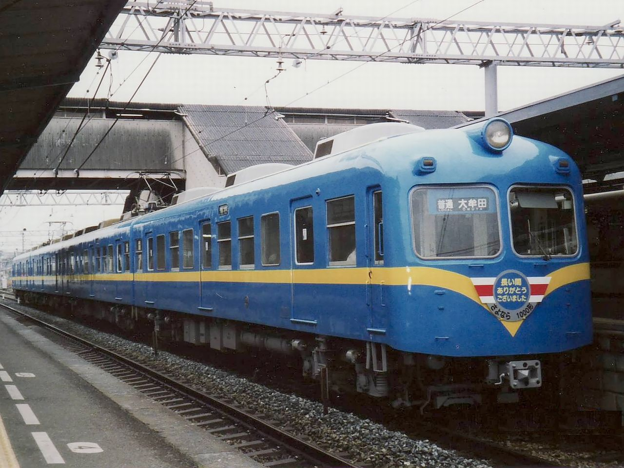 Nishi Nippon Railroad 1000 series EMU (1101-1102-1103-1104) at Nishitetsu Tenjin Omuta Line Nishitetsu-Futsukaichi Station in Chikushino, Fukuoka, Japan. Scanned from negative color print.